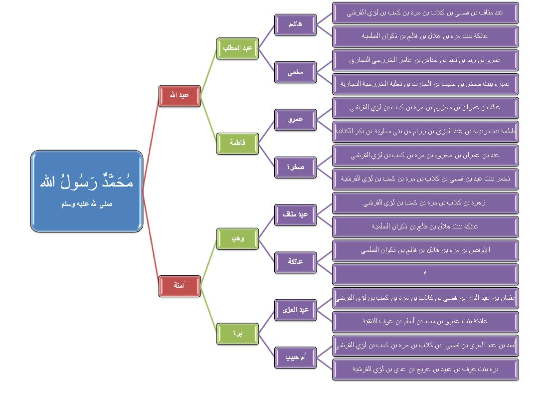 Family tree of Muhammad.